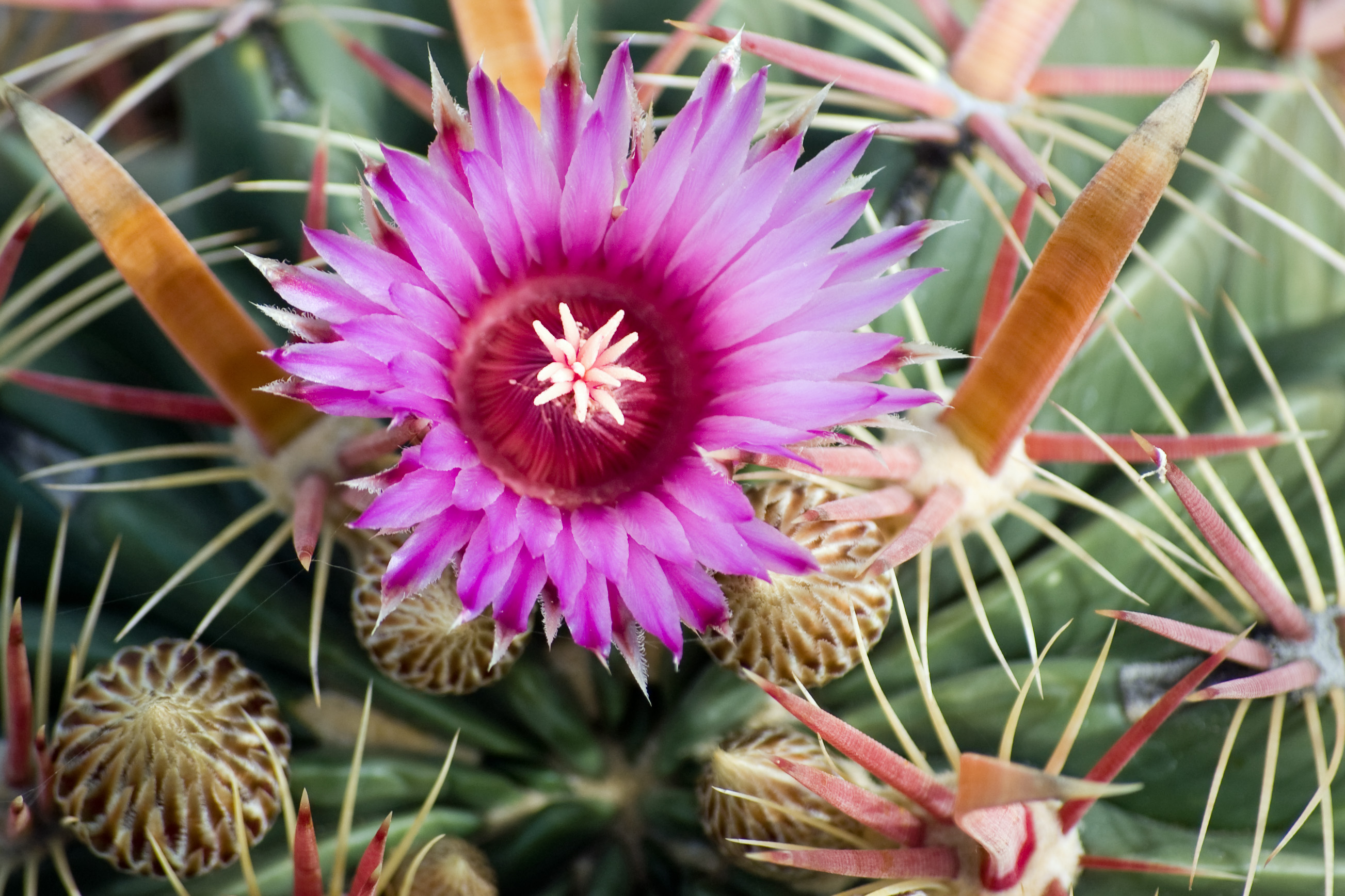 This barrel cactus (Ferocactus latispinus) blossom is not a fall surprise, like my photo last week. This one is supposed to bloom in November and it is right on schedule. There are many more buds, so we will have a couple of weeks of enjoyment out of this little beauty.